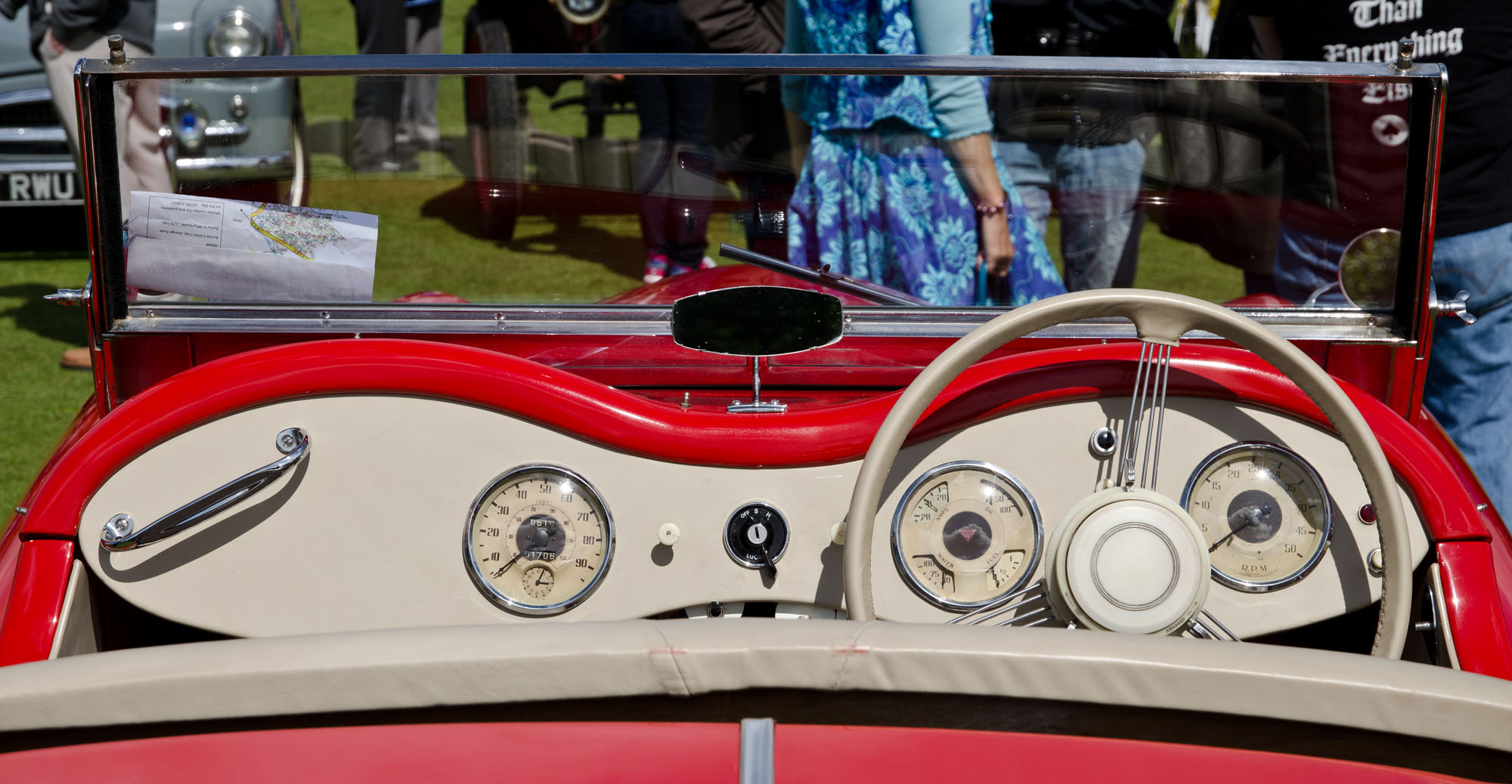 Burley in Wharfedale Classic Vehicle Show 17/08/2014